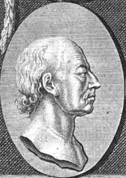 Johann Heinrich Gravenhorst (1719−1781), chemist and entrepreneur, Brunswick, Germany.